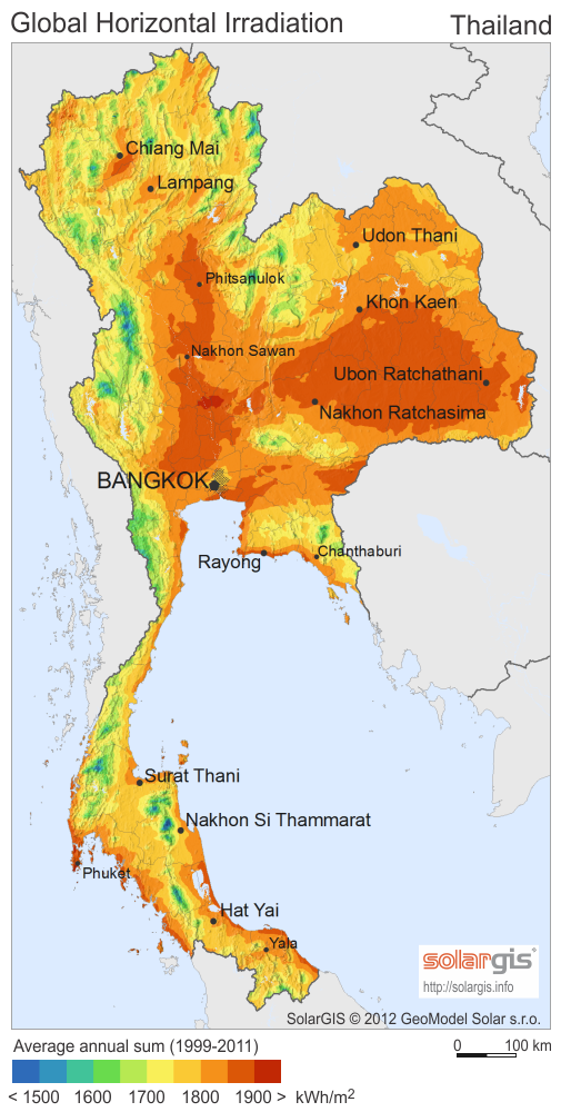 Solar Radiation Map: Global Horizontal Irradiation Map of Thailand, SolarGIS 2012